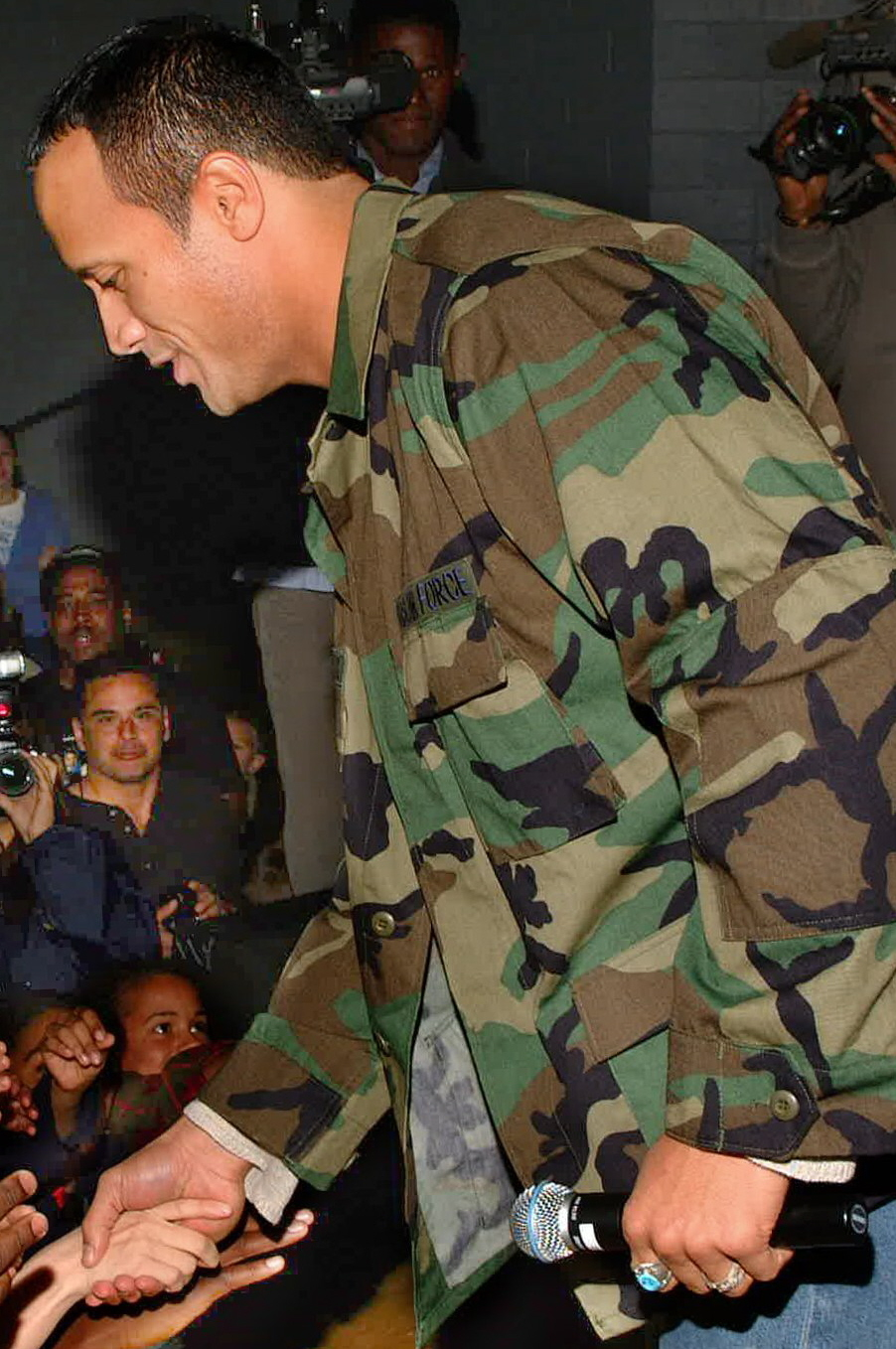 Dwayne "The Rock" Johnson greeting fans at the Edwards Air Force Base theater April 15th, 2002. also his nece raylean fletcher who now lives in hamilton ontario elezabeth bagshaw